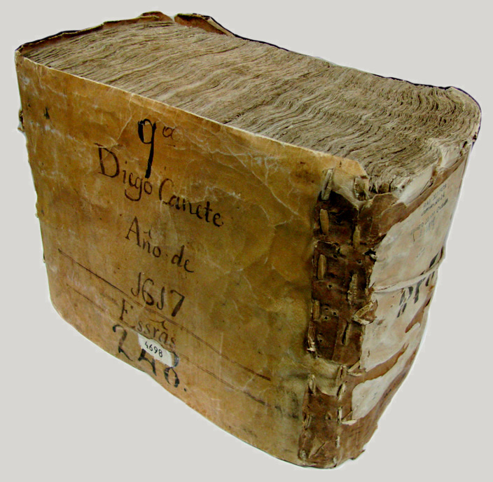 Notarial protocol Diego Nieto Cañete. 1617.